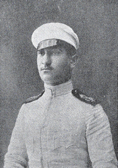 Portrait of Trendafil Dumbalakov